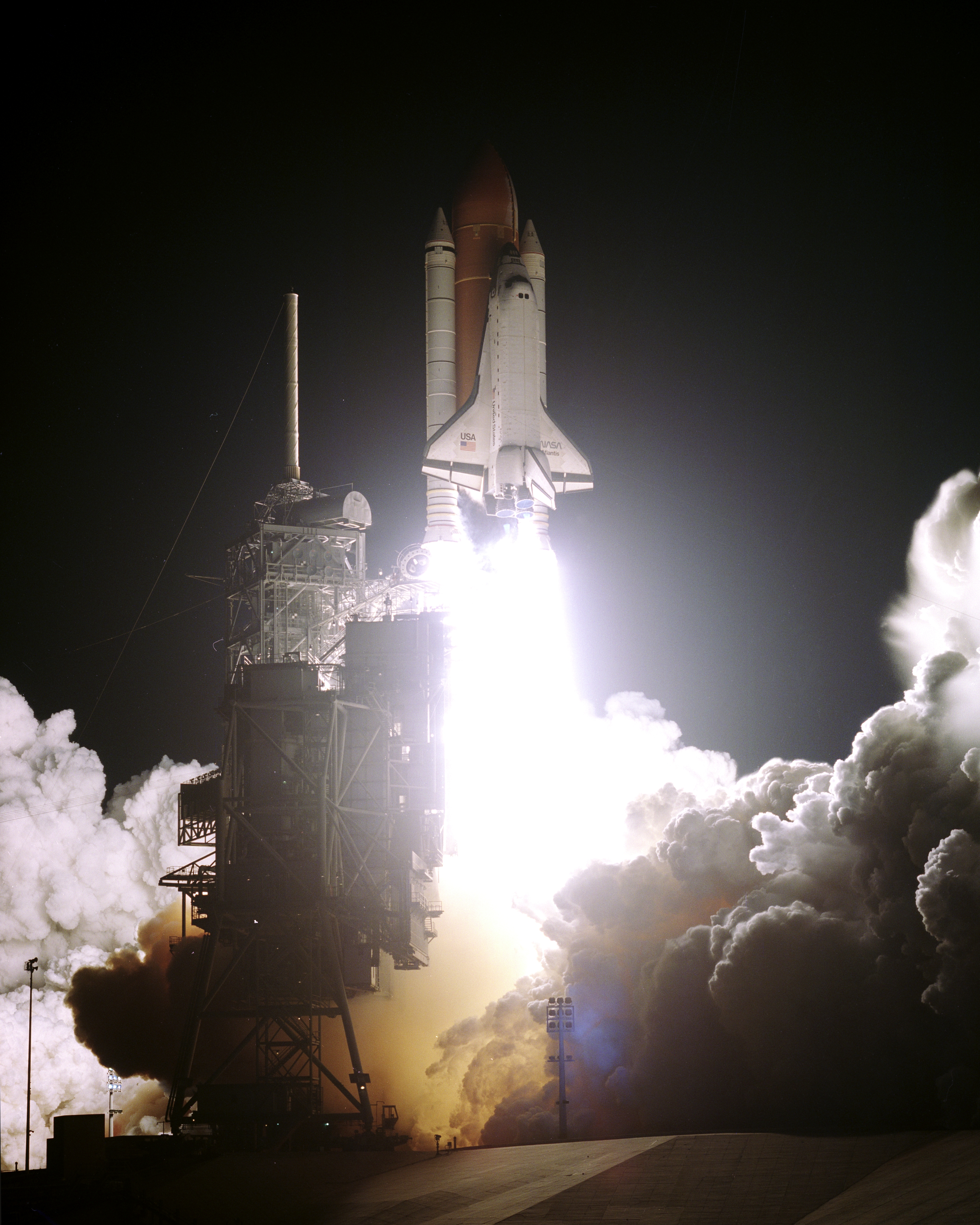 From the Kennedy Space Center's (KSC) Launch Pad 39B, the Space Shuttle Atlantis heads toward Earth-orbit and an eventual docking with Russia's Mir Space Station. Mir has been in space for ten years and a two man crew (Mir-21) currently awaits the arrival of Atlantis. The on-time launch occurred at 3:13:04 a.m. (EST) on March 22, 1996. Onboard are astronauts Kevin P. Chilton, Richard A. Searfoss, Ronald M. Sega, Michael R. (Rich) Clifford, Linda M. Godwin and Shannon W. Lucid. Lucid will remain onboard Mir for just under five months' time.